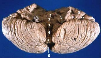 Human cerebellum - anterior view Lobulus centralis Vellum medullare anterius Nodulus Uvula vermis Pyramis vermis Vallecula cerebelli Tonsilla cerebelli Hemispherium cerebelli Pedunculus cerebelli Flocculus Fissura horizontalis The hemispheres together with the vermis of the cerebellum are also divided from anterior to posterior into 3 phylogenetic (as well as functional) divisions or lobes. These are the Anterior Lobe, the large Posterior Lobe, and, the oldest part of the cerebellum – the Flocculonodular Lobe. The latter is made up of the Nodulus of the vermis and the paired Flocculi of the hemispheres. (font: arial black, size: 10)